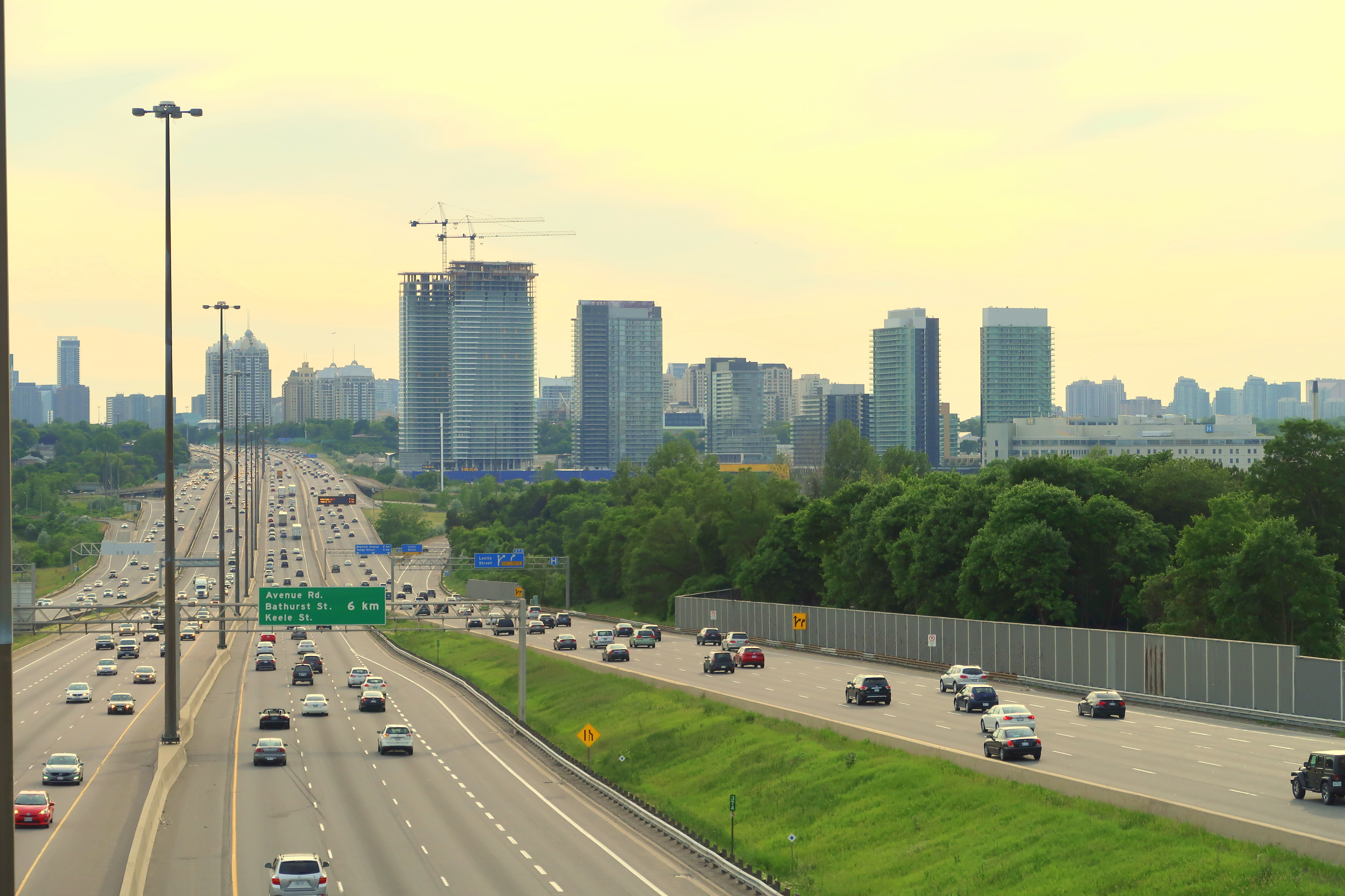 Highway 401 in Toronto has seen a lot of dense development in recent years.